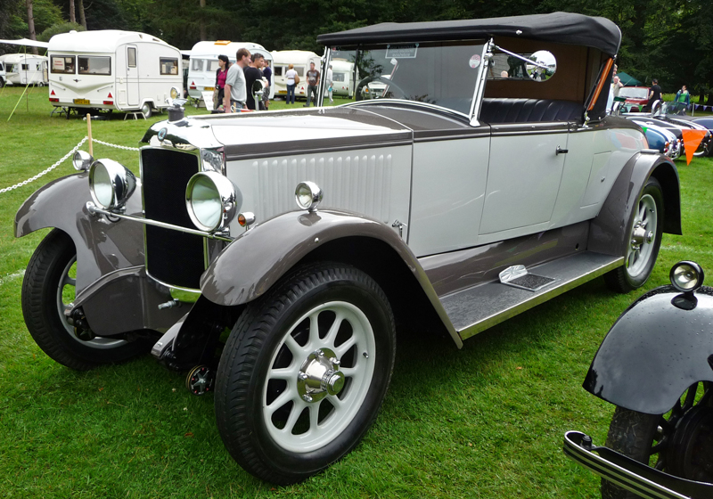 Vauxhall 20/60 R-type, Melton open 2-seater with dickey seat. 1928 BF4431, 2762 cc Tatton Park Classic Car Show. August 2010